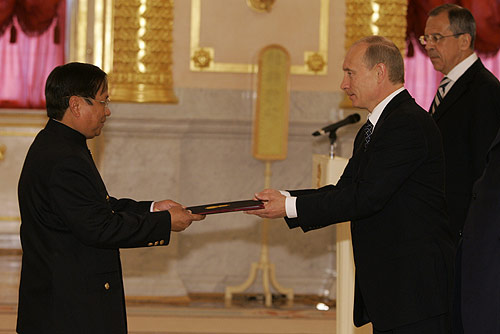 GRAND KREMLIN PALACE, MOSCOW. Ambassador of the Kingdom of Cambodia presents his letter of credentials to the President.